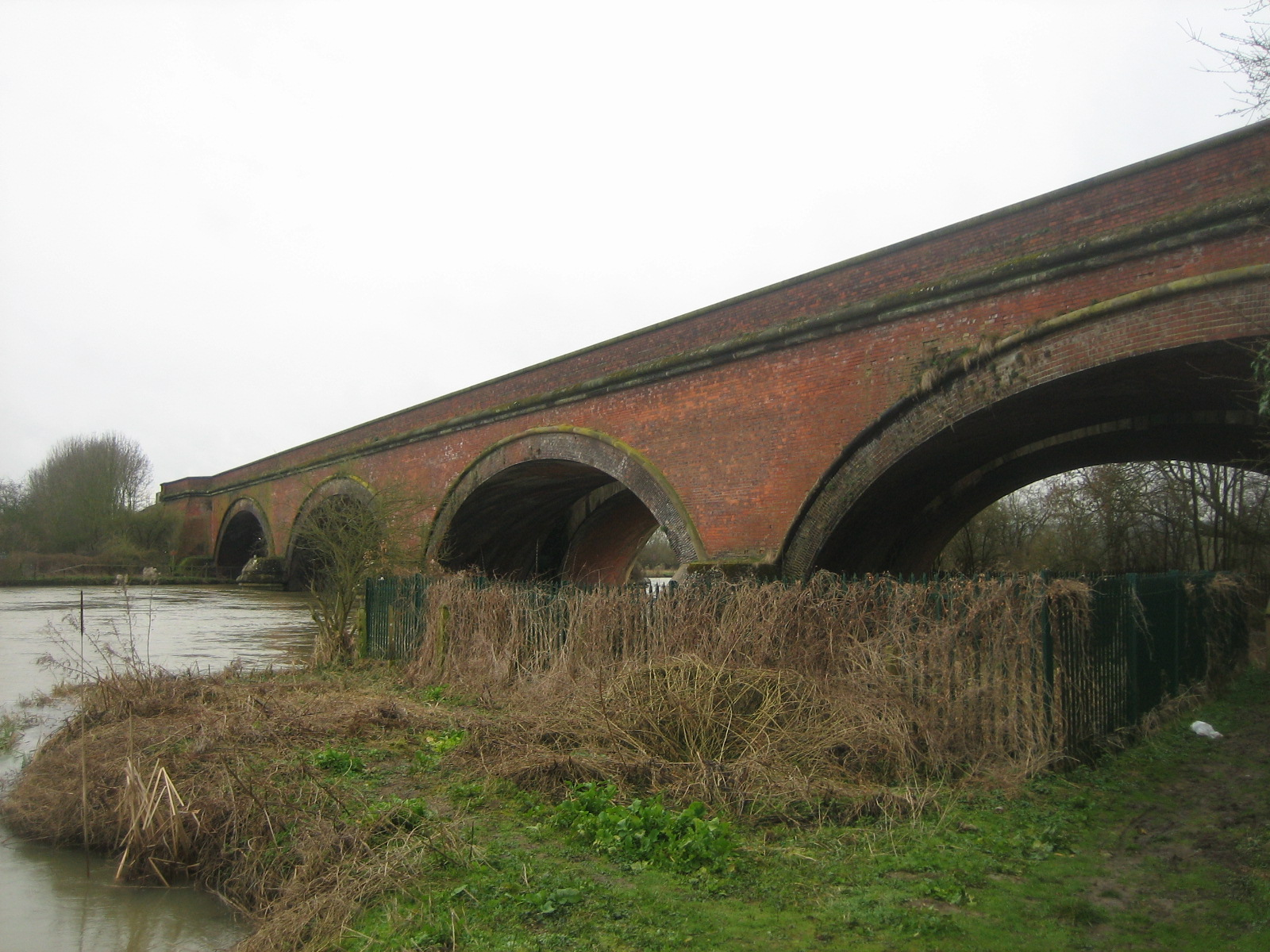 Moulsford Railway Bridge, Oxfordshire.